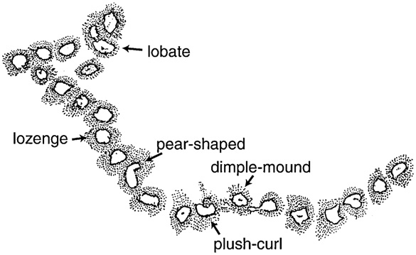 Variation in bead shape of Horodyskia moniliformis from the 1.4 Ga Appekunny Argillite of Appekuny Mountain Montana